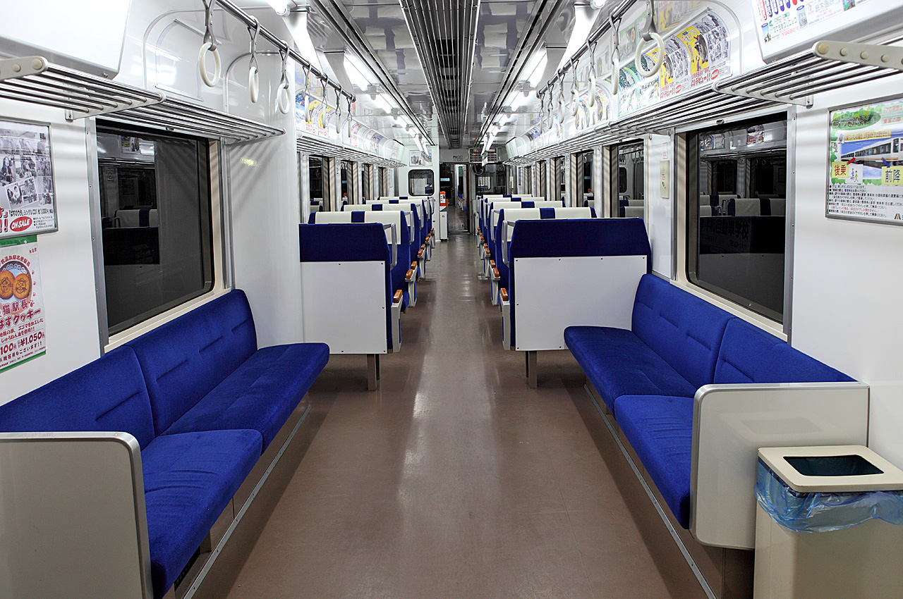 Interior of Aizu Railway Type AT-500